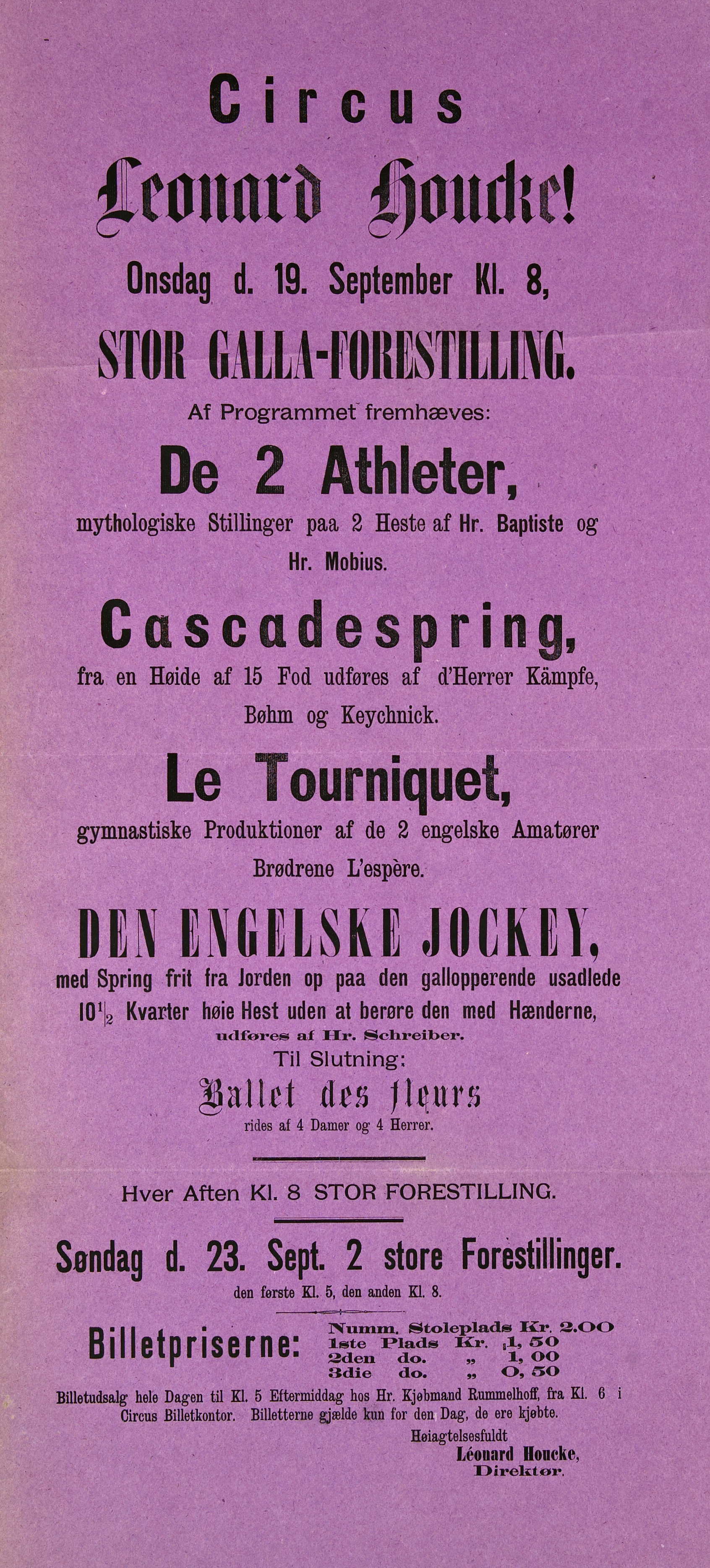 Beskrivelse / Description: Plakat / poster. Dato / Date: ca. 1897-1915 Eier / Owner Institution: Nasjonalbiblioteket / National Library of Norway Lenke / Link: Bildesignatur / Image Number: no-nb_plktr_04287